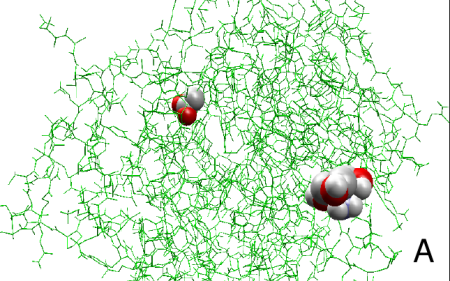 the structure model of Toxoplasma gondii Coronin